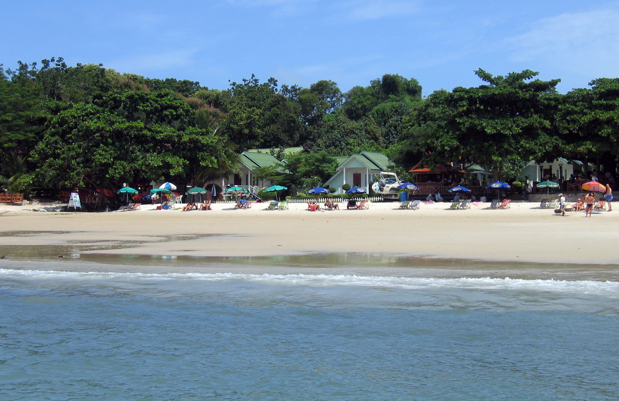 Ao Phai in Koh Samet, Thailand.